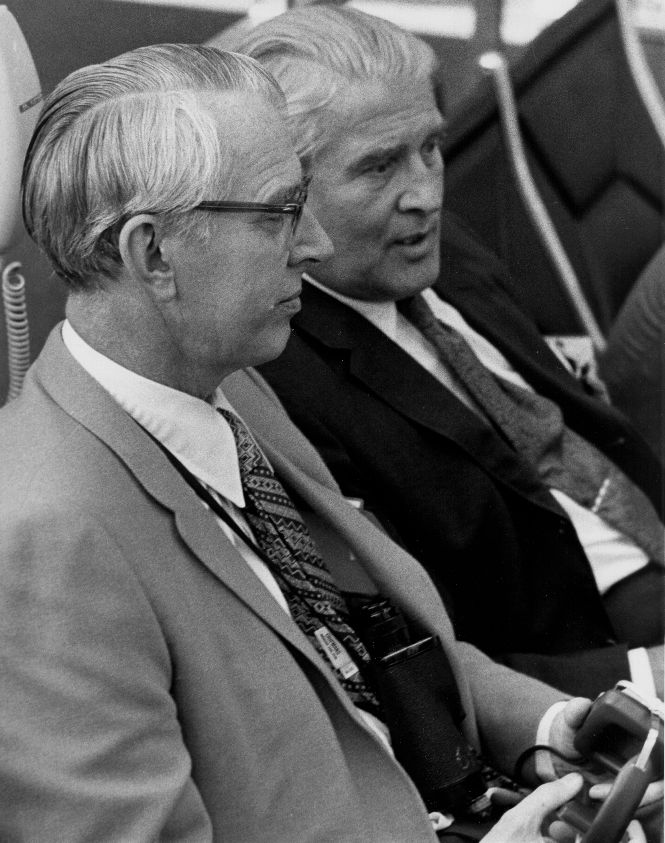 Recently appointed NASA Administrator Dr. James C. Fletcher, left, and Dr. Wernher von Braun, Deputy Associate Administrator for Planning, monitor Apollo 15 prelaunch activities in Firing Room 1 of the Launch Control Center and the Kennedy Space Center, Florida.